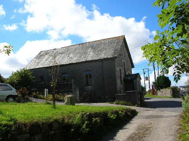 Rescorla Chapel, near St. Austell , Cornwall. Methodist Chapel built 1879, closed, but hopes to refurbish as Heritage centre and village hall.